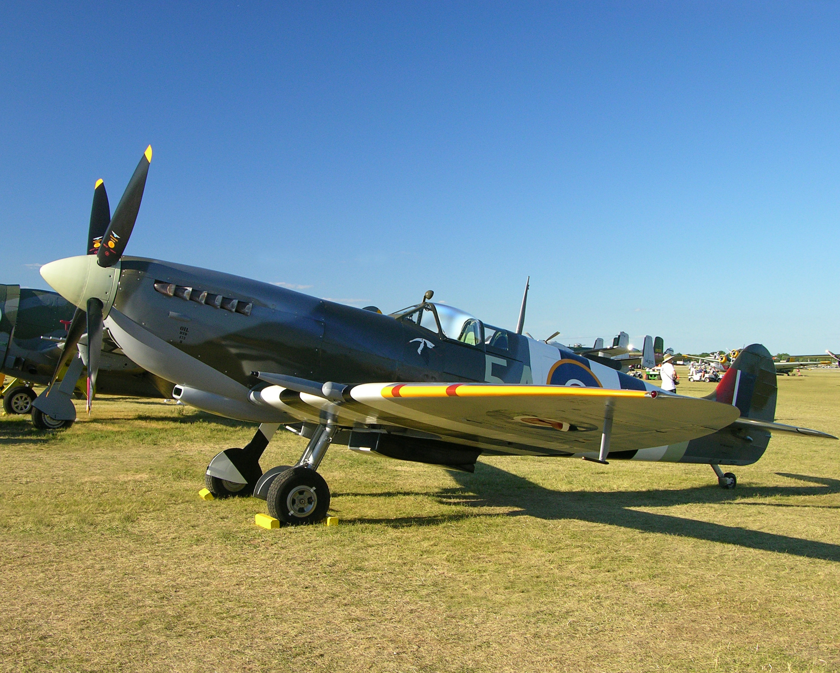 Supermarine Spitfire Mk IX (?) at the 2005 Oshkosh Air Show.